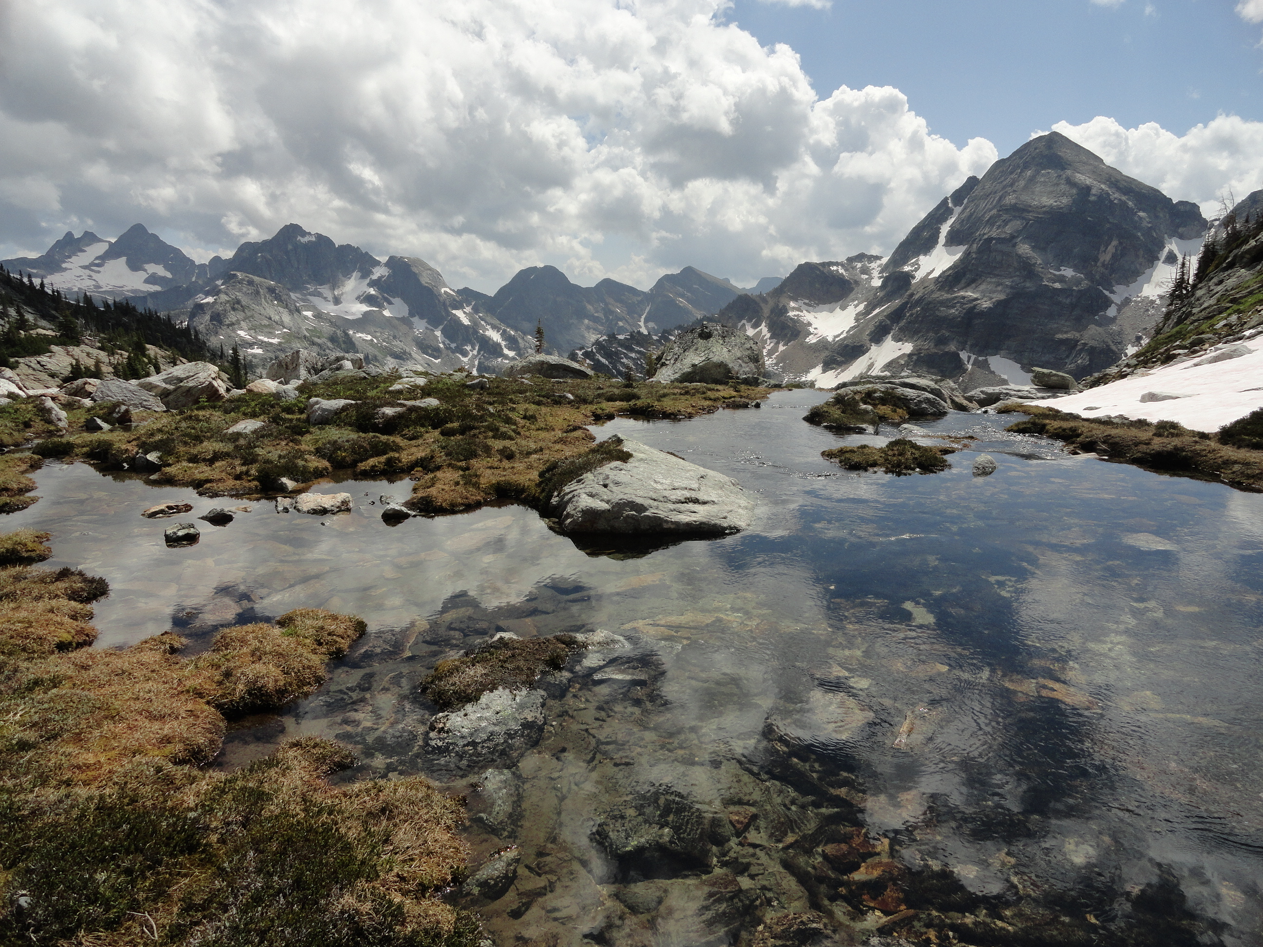 Snowmelt Pool in Valhalla Provincial Park This photo was taken in a protected area in Canada, Wikidata item Valhalla Provincial Park (Q14874781) Valhalla Provincial Park (Q14874781